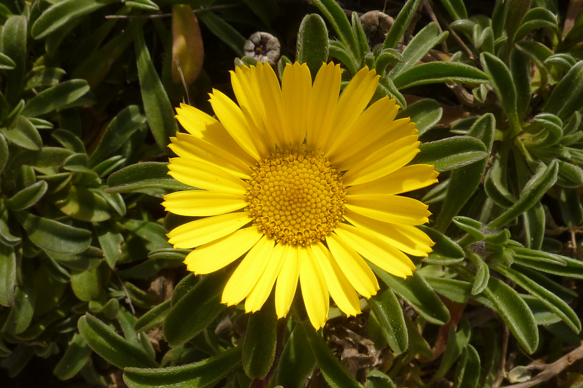 g Yellow Sea Aster Meia Praia Portugal 20.02.16